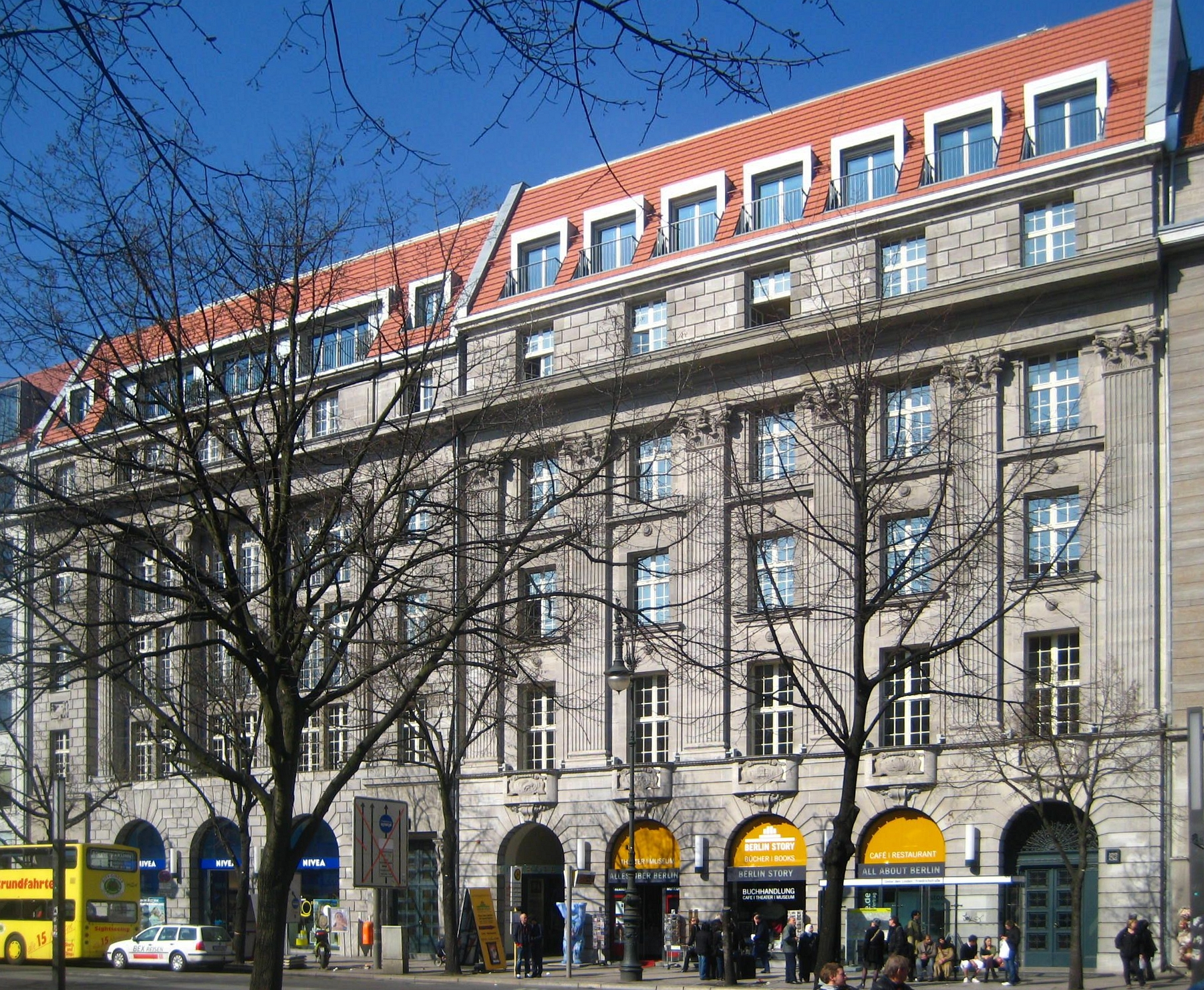 The building complex "Kaiserhöfe", Unter den Linden No. 26 to 30, in Berlin-Mitte, consisting of two commercial buildings constructed indepentendly between 1910 and 1914. The former bank building of the Preußische Central-Bodenkredit-AG (No. 26, right) was built from 1910 to 1914 to different designs by the architects Kurt Berndt and Richard Bielenberg & Josef Moser respectively. The former commercial building of the Daimler-Motoren-Gesellschaft (Np. 28-30, left) was built 1912-1913 by architects Alfred Klingenberg and Fritz Beyer in the conservative style of Neoclassicism, which was typical for German representative architecture at that time. Both parts of the building complex have been designated as historic landmarks.